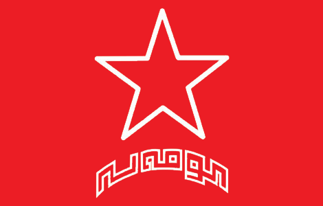 Flag of the Komełey Şorrişgêrrî Zehmetkêşanî Kurdistanî Êran, better known as Komala.